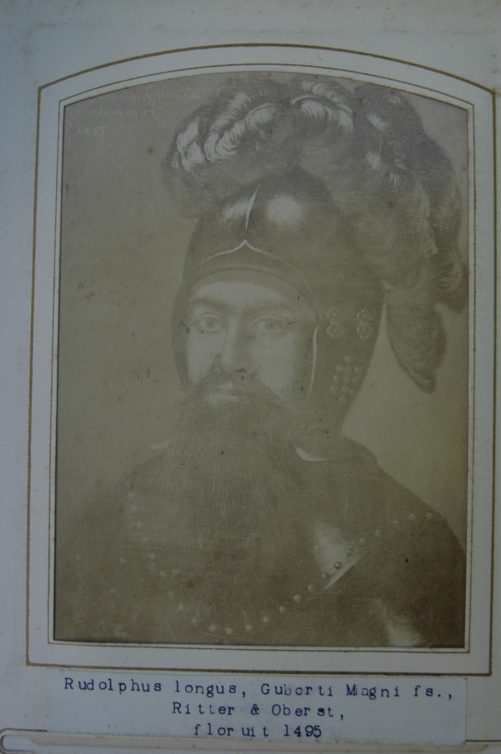 Digital photo taken my me (R. de SalisRodolph (talk) 23:19, 17 August 2014 (UTC)) of my copy of a photo of a portrait of Rodulphus/Rudolfus 'Longus' à Salis of Soglio, sometime Governor of Pavia, a Grigione, wounded at Battle of Novaro and killed at Marignano 1515. His wife was Maria de Sacco of Monsax. His brothers were Ritter Dietegan Magnus and Andreas the first Three Leagues Commissioner of Chiavenna. Son of Gubertus Magnus (d.1490) by his wife Ursula à Porta. Other information From: Photographien der Bilder von Vorfahren der Familie von Salis, Chur, 1884./ From a copy of the book in the Privatsammlung Fane-De Salis. The image might well be a fancy which could have been imagined, or copied from a lost original, anytime c. 1600-1800. Son of Gubertus Magnus (d.1490) by his wife Ursula à Porta.